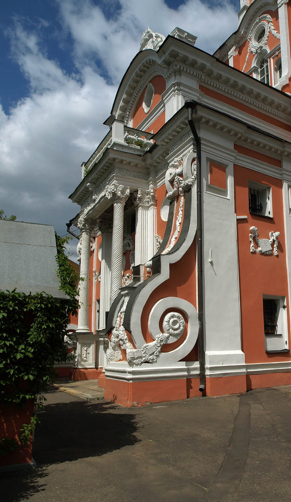 Сhurch of Archangel Gabriel in Moscow, aka Menshikov Tower